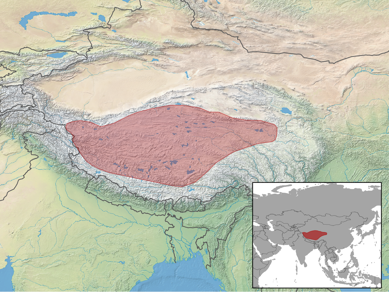 geographic distribution of Pantholops hodgsonii